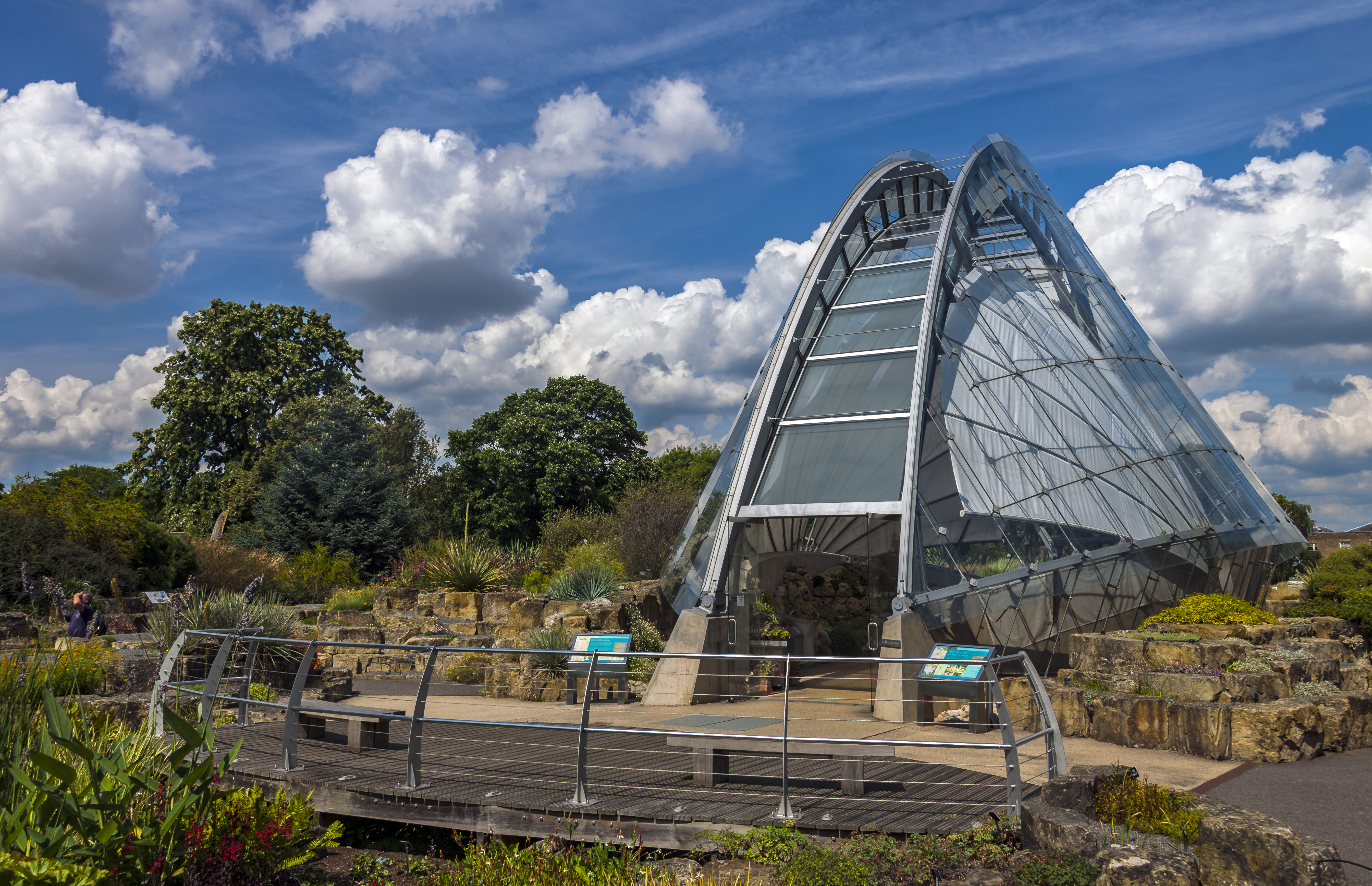 Davies Alpine House at Kew Gardens